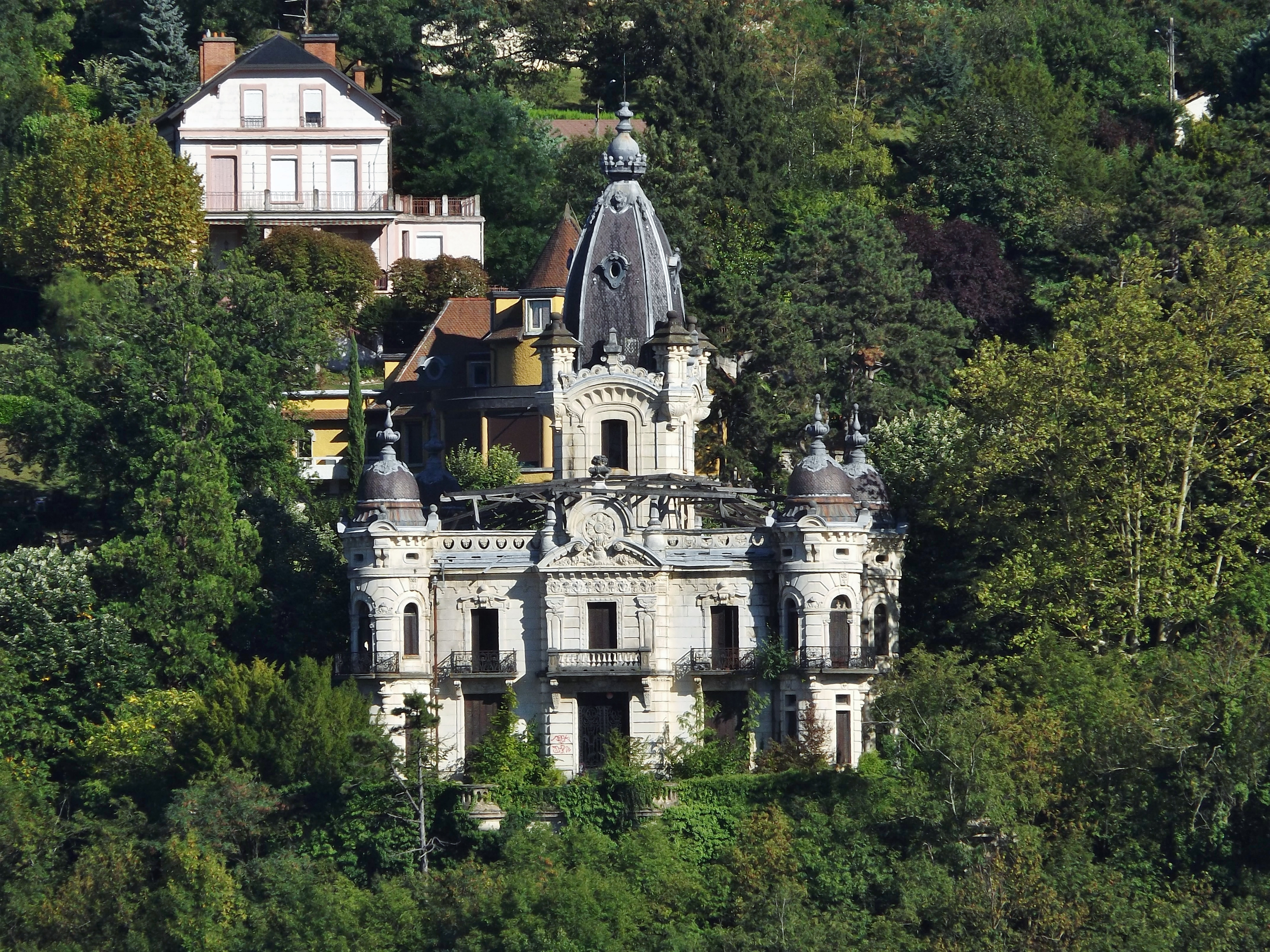 Sight, from the Tresserve hill, of Château de la Roche du Roi castle, in Aix-les-Bains, Savoie, France.